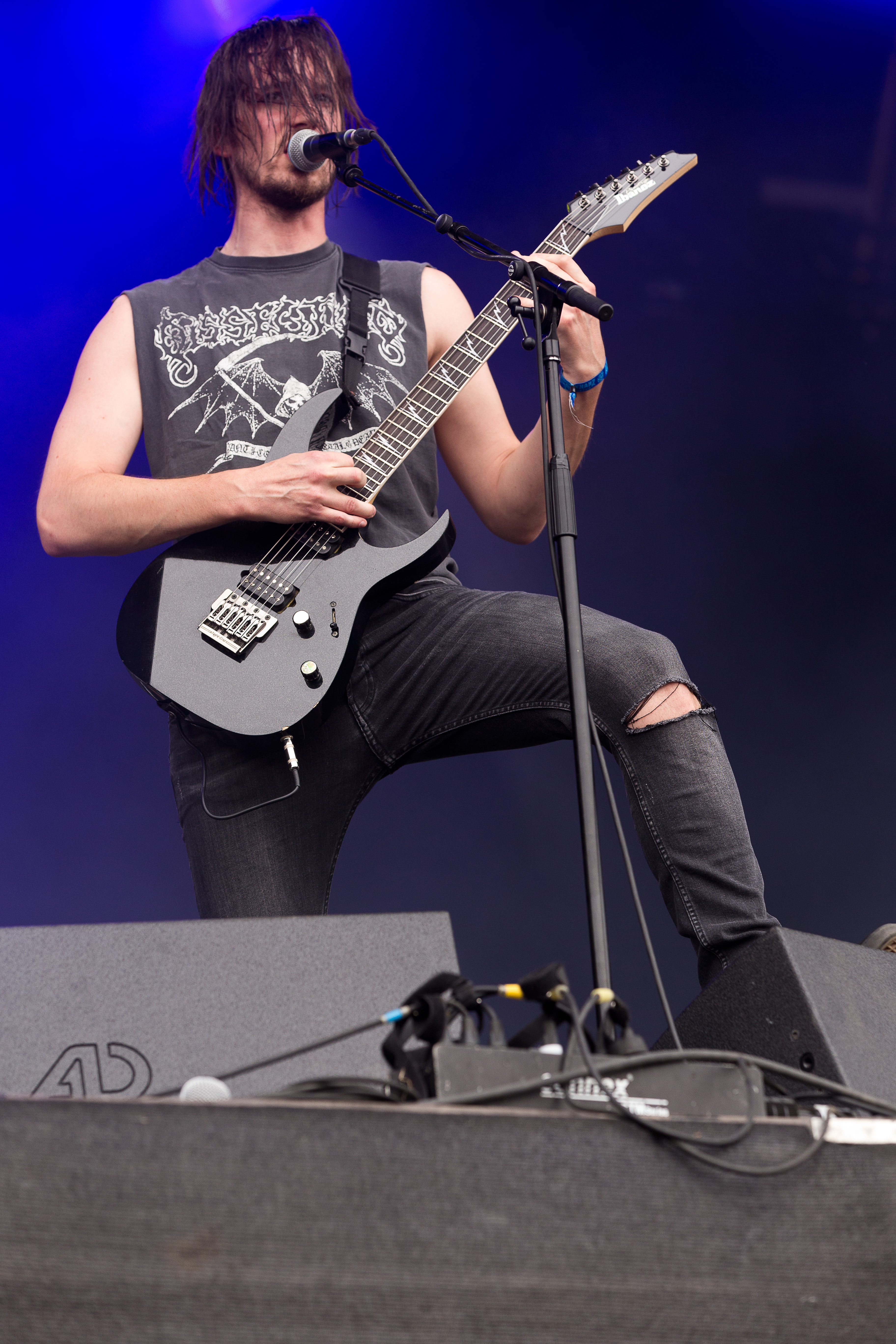 The German extreme metal band Der Weg einer Freiheit at the Rockharz Open Air 2016 in Ballenstedt/Germany.